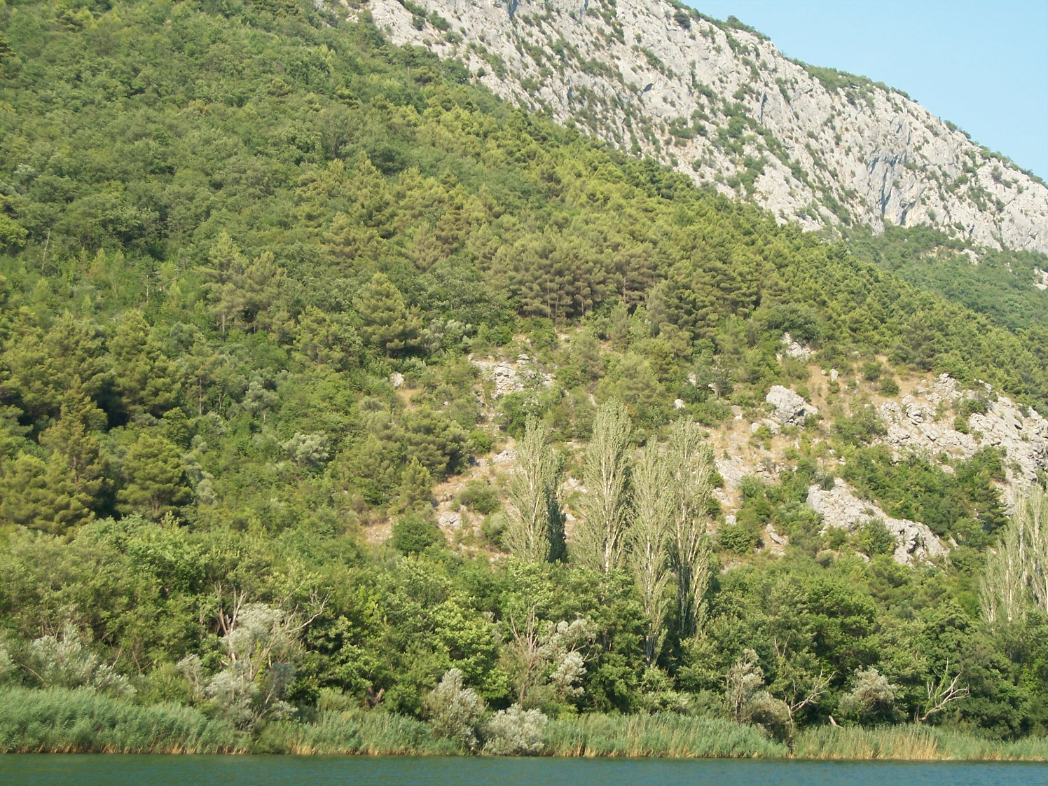 Omiš in Croatia